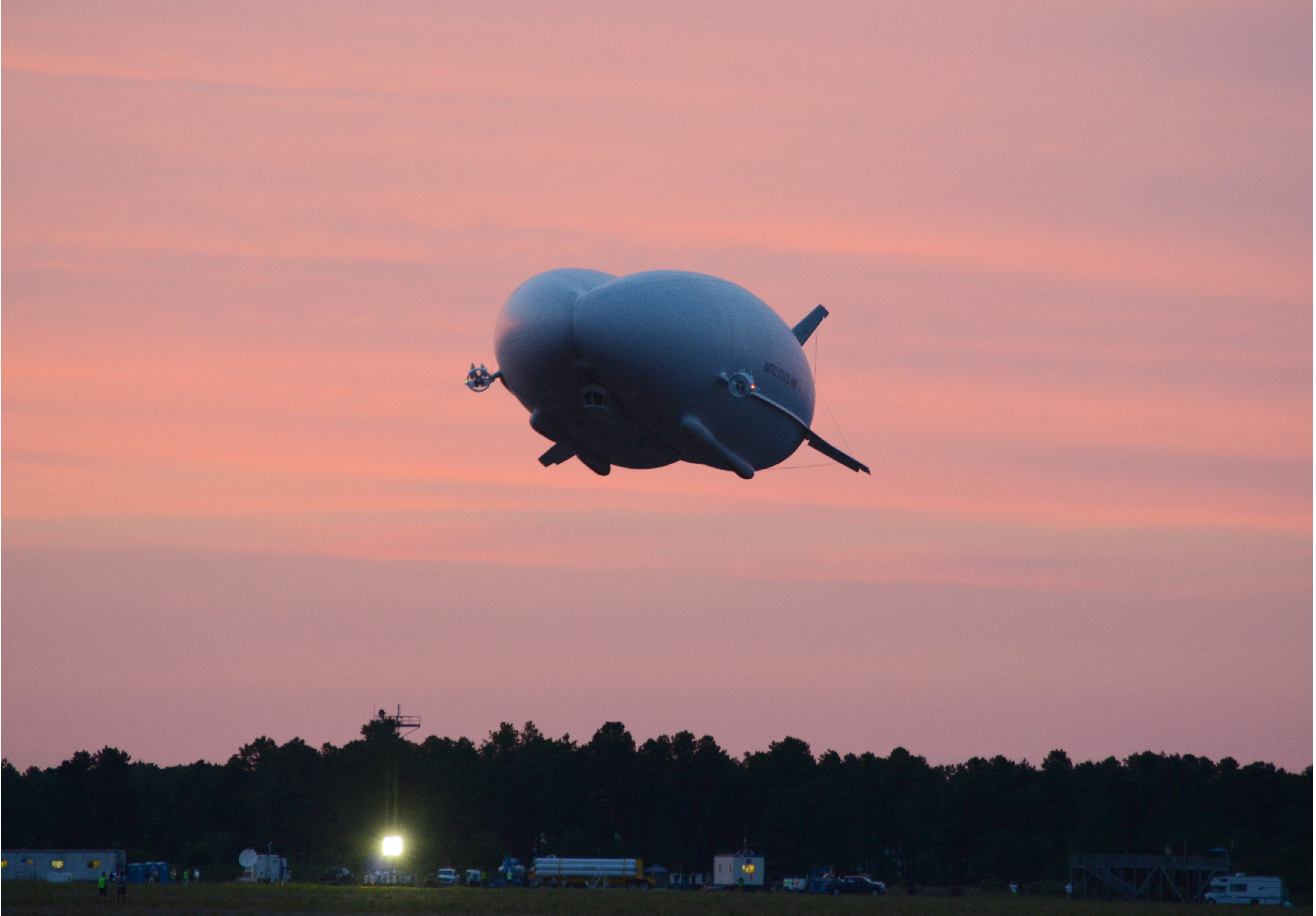 Airlander - US Army Flight Front